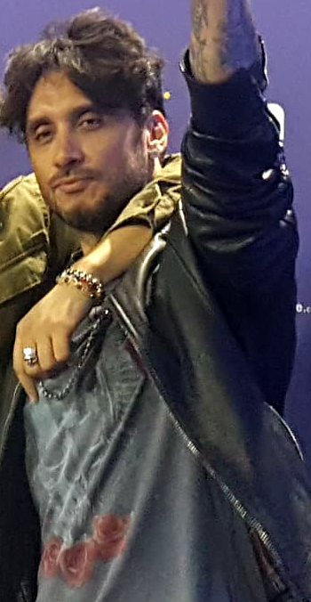 Italy singer Ermal Meta and Fabrizio Moro on May 2018.